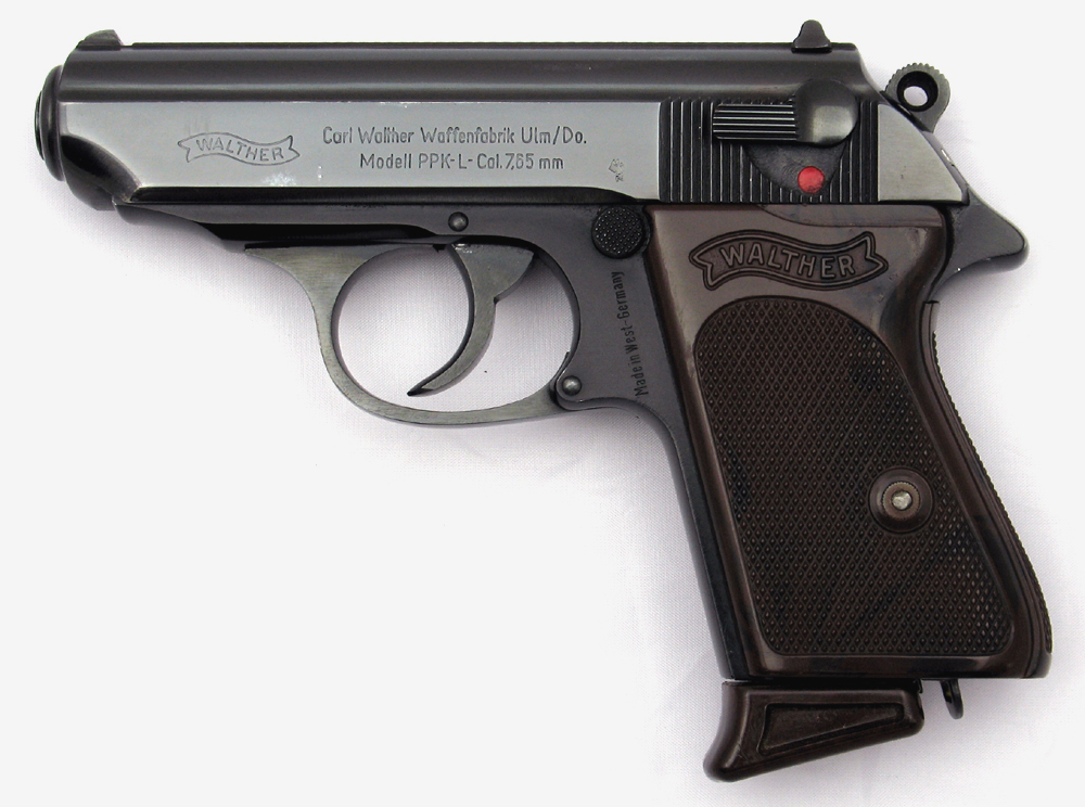 Walther PPK-L